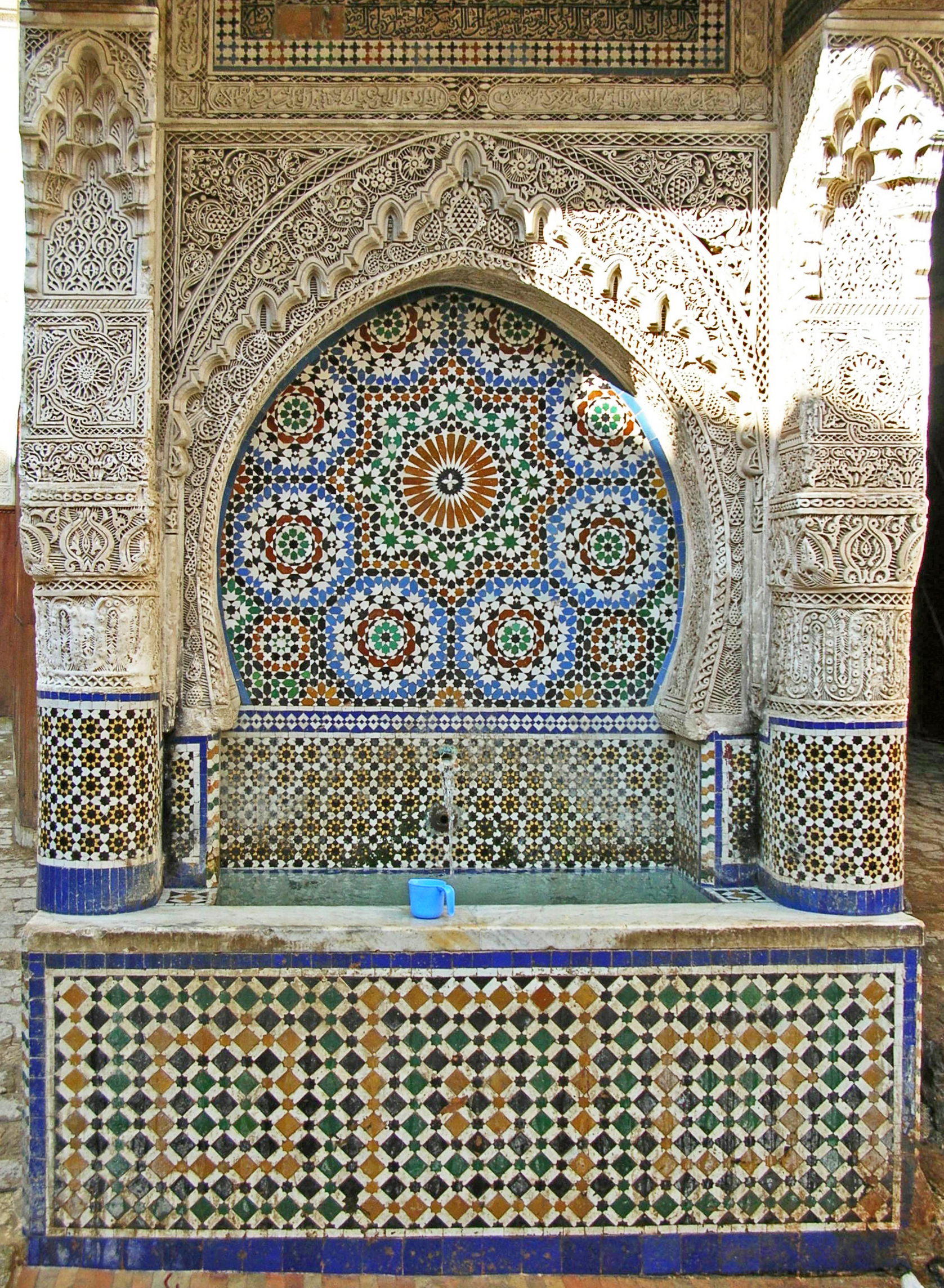 Fountain at Place Nejjarine, Fez, Morocco